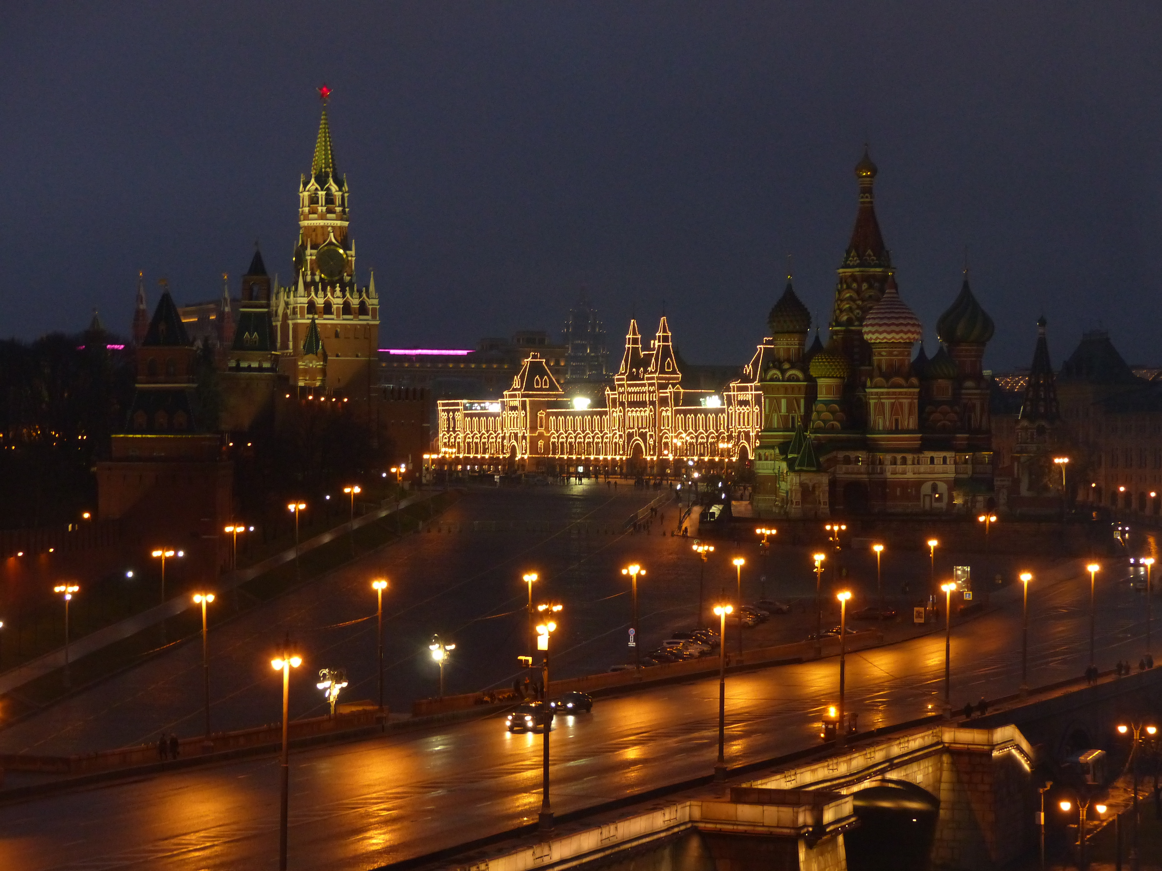 Kreml by night-view from Baltschug Kempinski